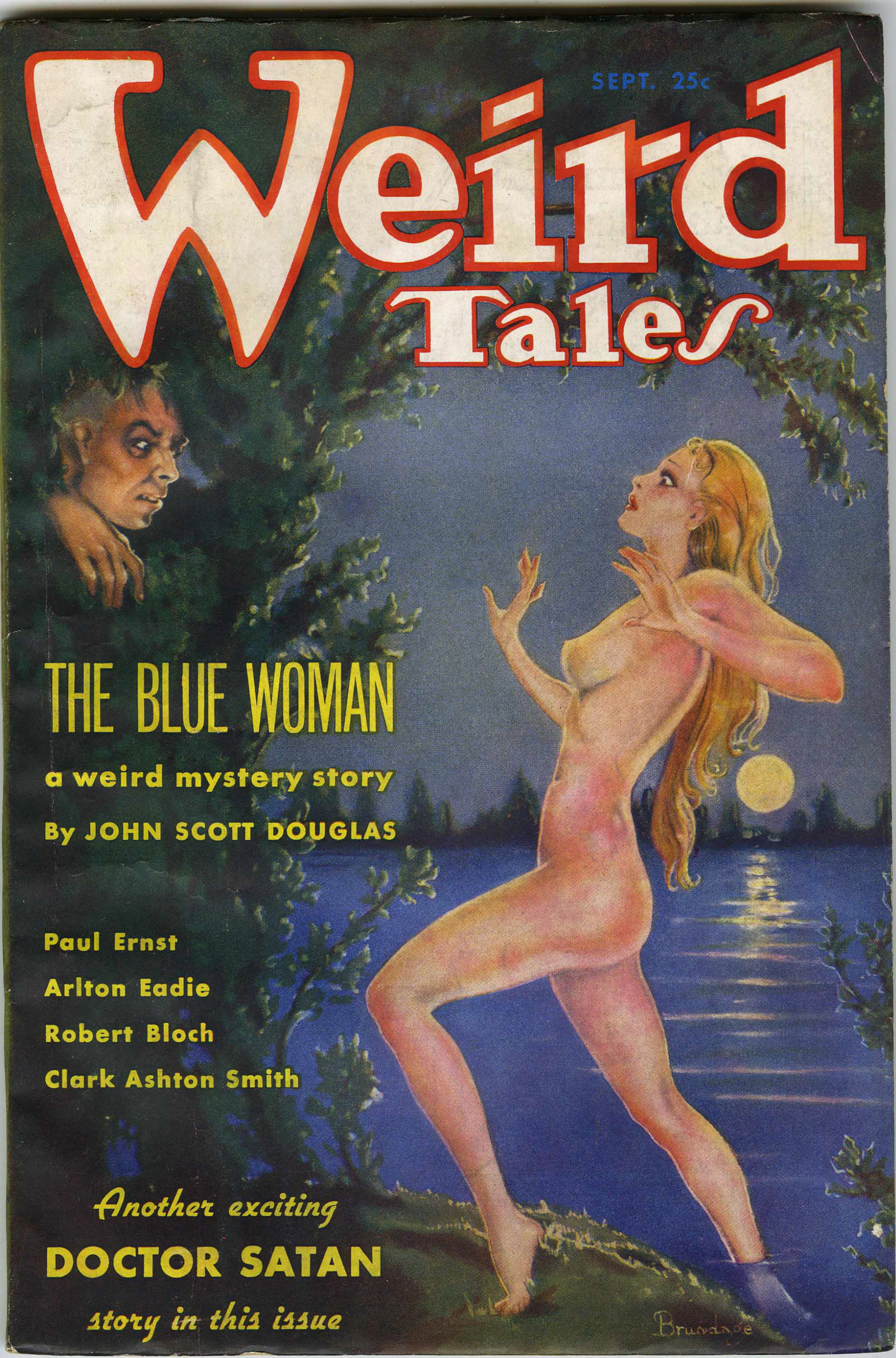 Cover of the pulp magazine Weird Tales (September 1935, vol. 26, no. 3) featuring The Blue Woman by John Scott Douglas. Cover art by Margaret Brundage.